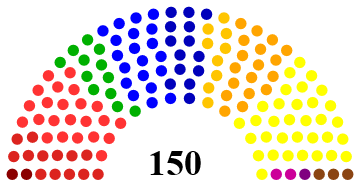 current diagram